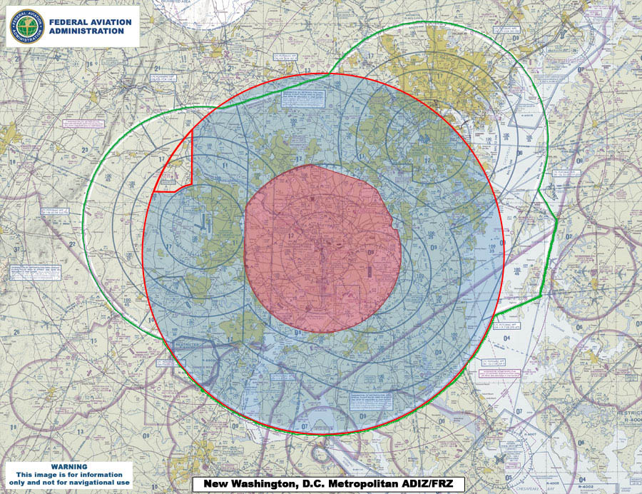 This map compares the new Air Defense Identification Zone (ADIZ) surrounding Washington, D.C. (red line) with the old ADIZ (green line). The new zone is effective as of 0500 UTC, 30 Aug 2007. The shaded red circle in the middle is the restricted airspace surrounding the capital.